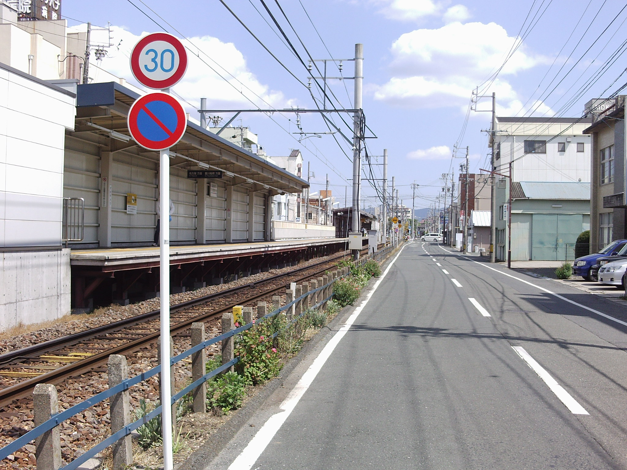 Aichi prefectural road No.378 in Suwa 3-chome, Toyokawa, Aichi.